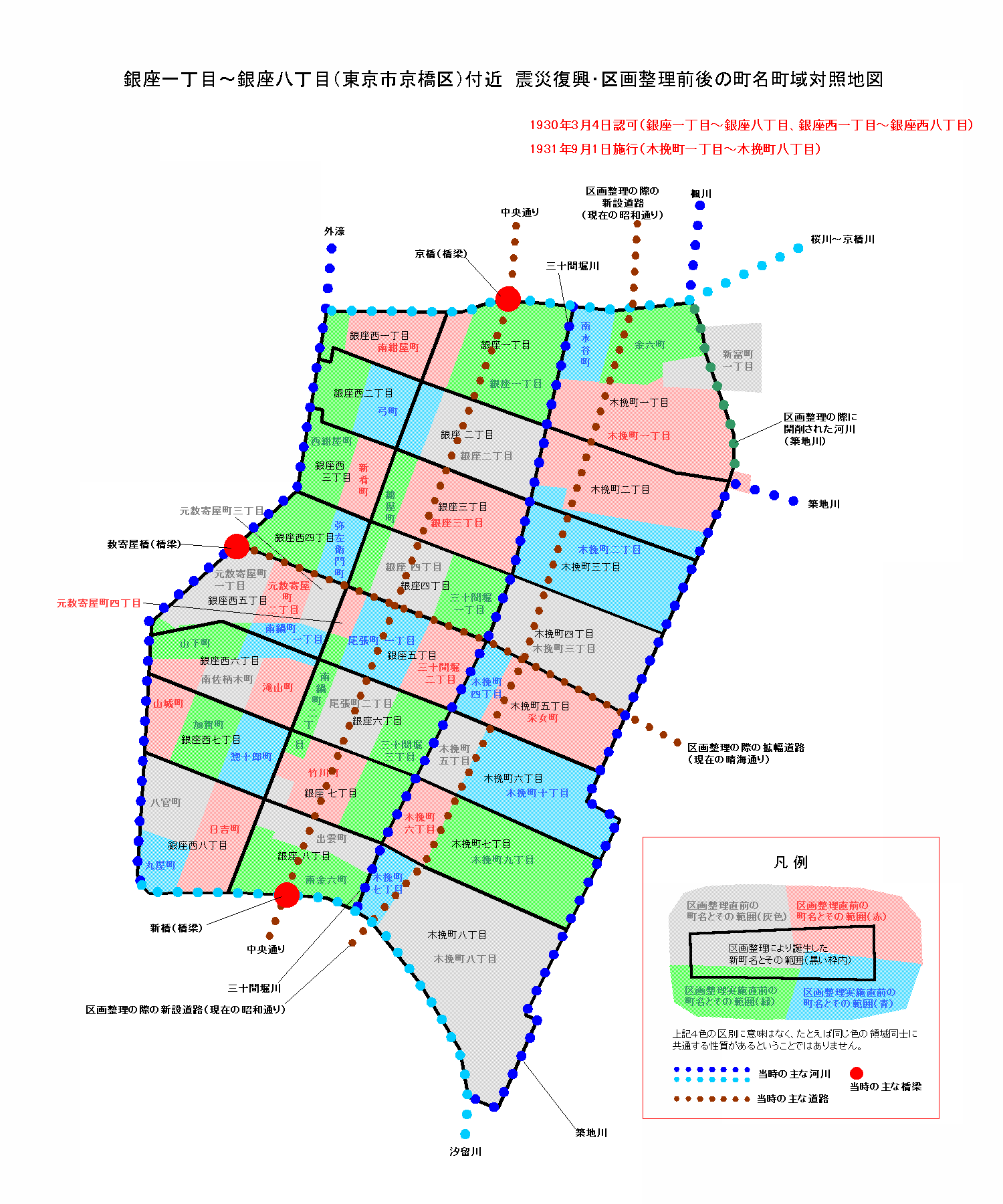 Ginza map, district of Chūō Ward, Tokyo.